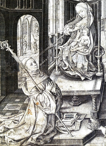 Cropped, adjusted version of PD image from Wikimedia Commons